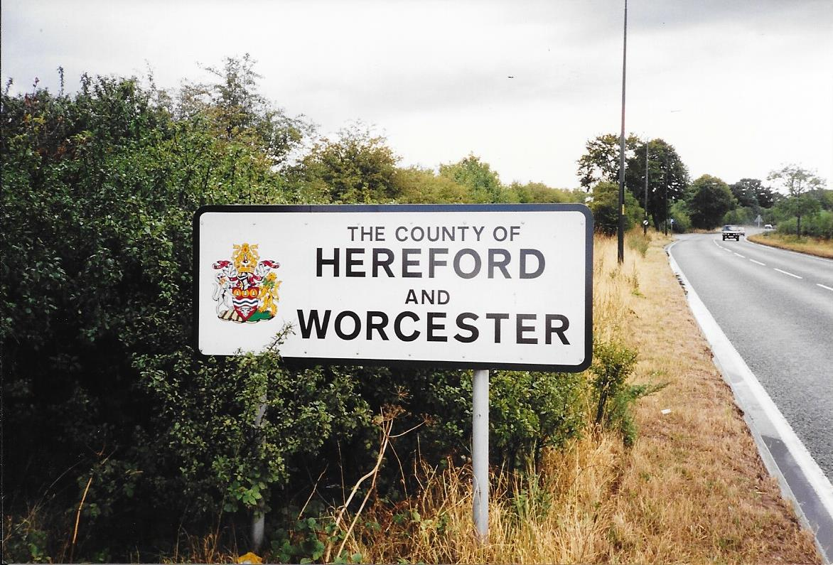 County of Hereford and Worcester sign on the A449 road on the boundary near Caunsall between Worcestershire and Staffordshire. Hereford and Worcester was dissolved in 1998, three years after this photograph was taken.